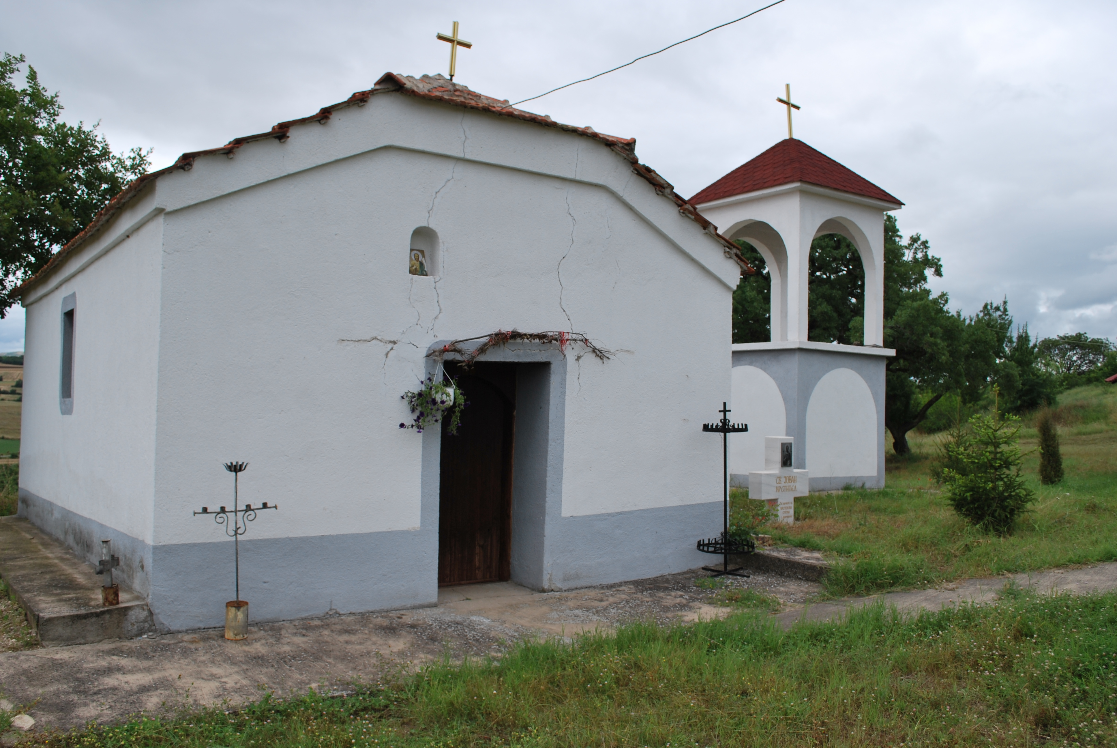 St. John the Baptist Church in Skačkovce, Macedonia